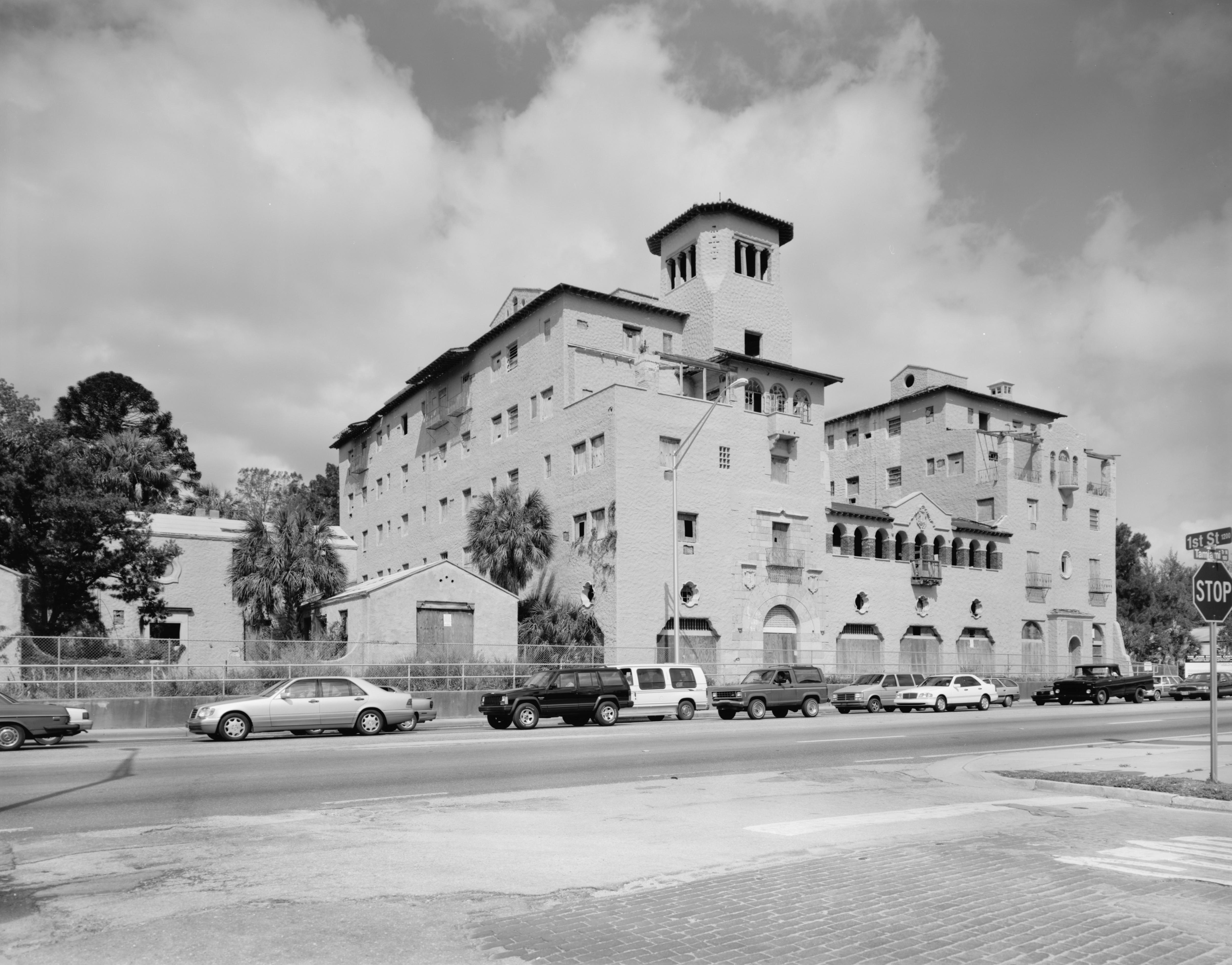 Front of the El Vernona Hotel-John Ringling Hotel — located at 111 North Tamiami Trail in Sarasota, Florida. Built in 1925, the theater is listed on the National Register of Historic Places. Image courtesy of federal HABS—Historic American Buildings Survey in Florida project.